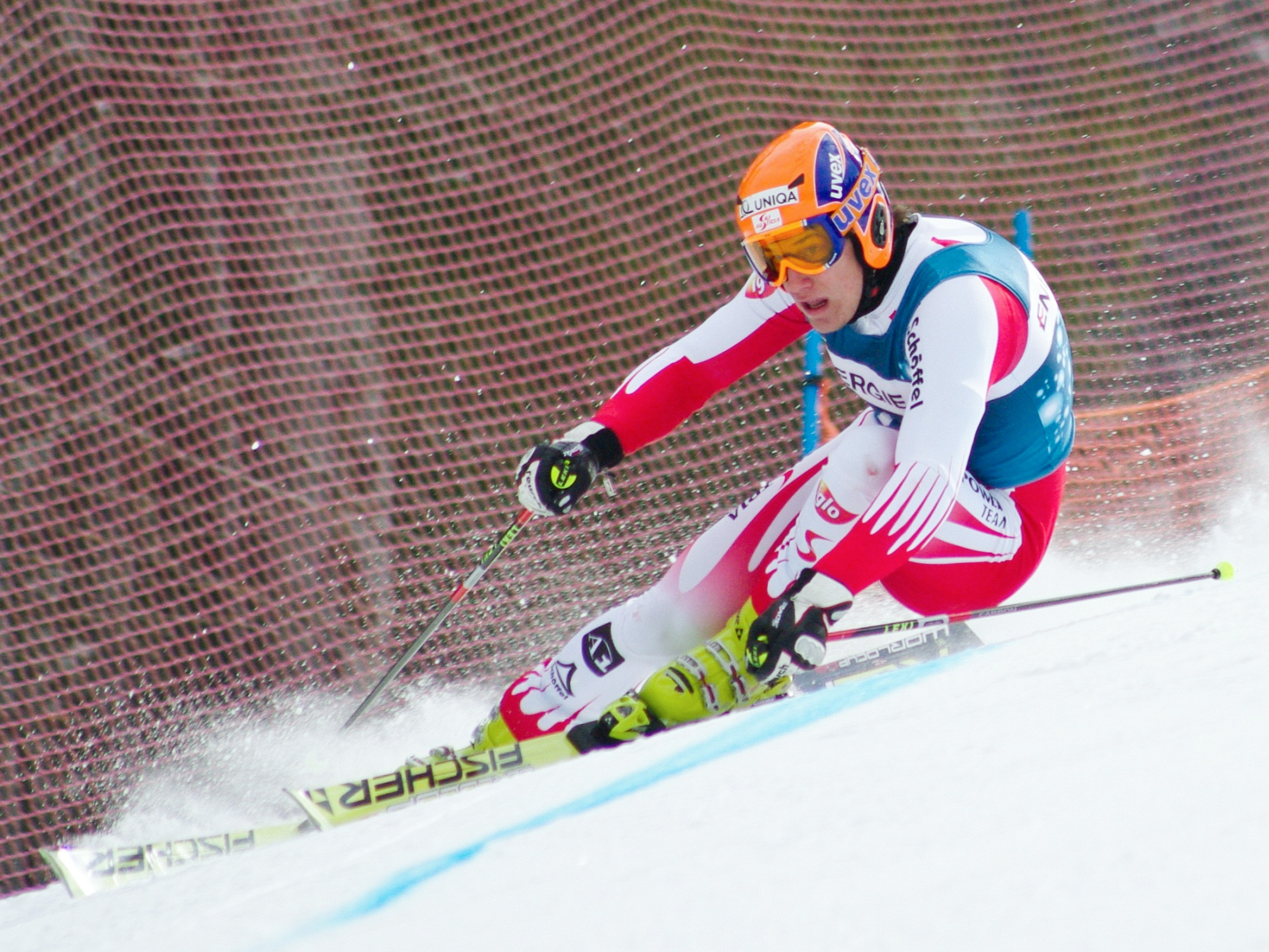 Austrian alpine skier Otmar Striedinger in the second run of the FIS Giant Slalom in Hinterstoder, Austria, on 8 March 2010.